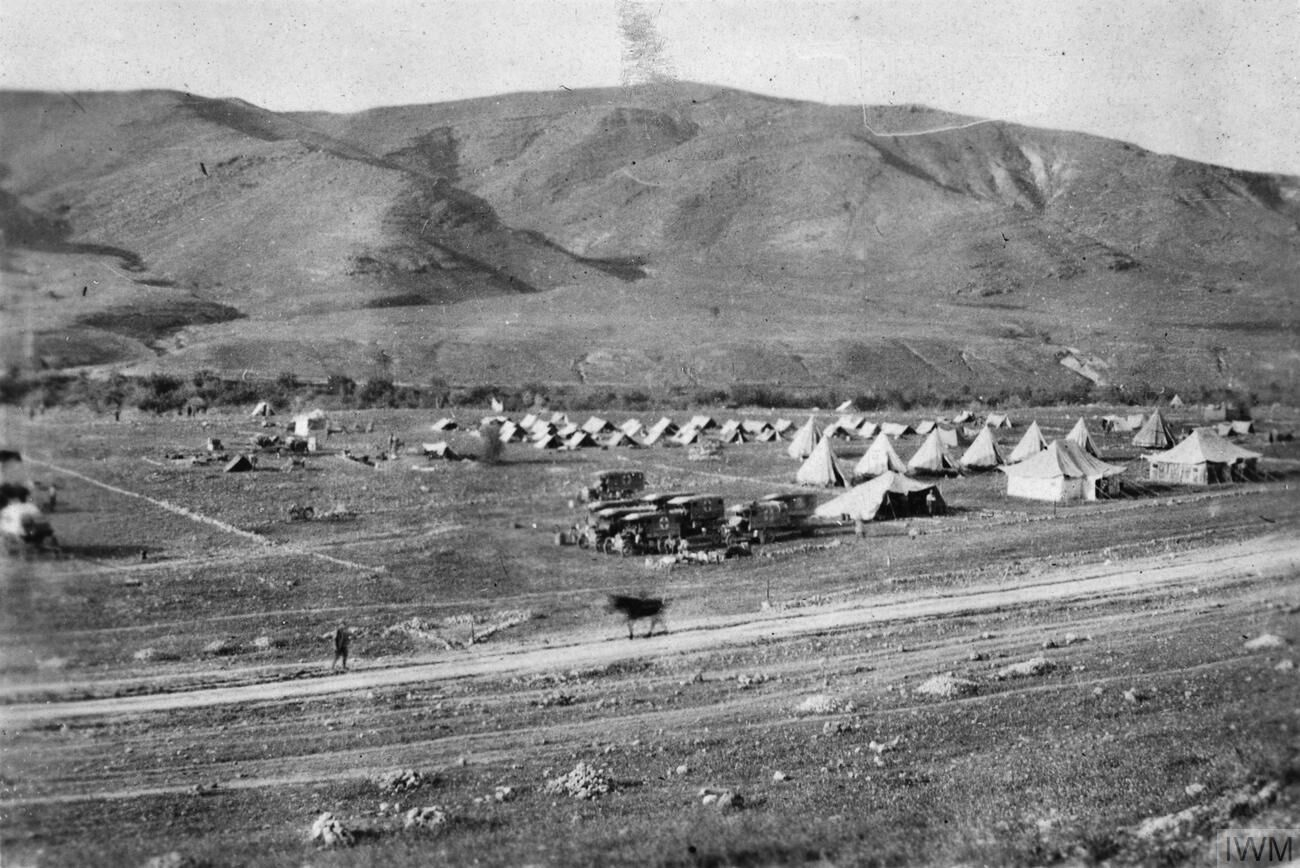 Photo of camp and hospital in the hills of Moab September-October 1918